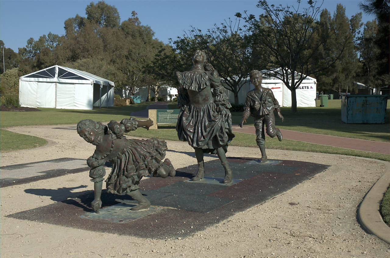 Hopscotch